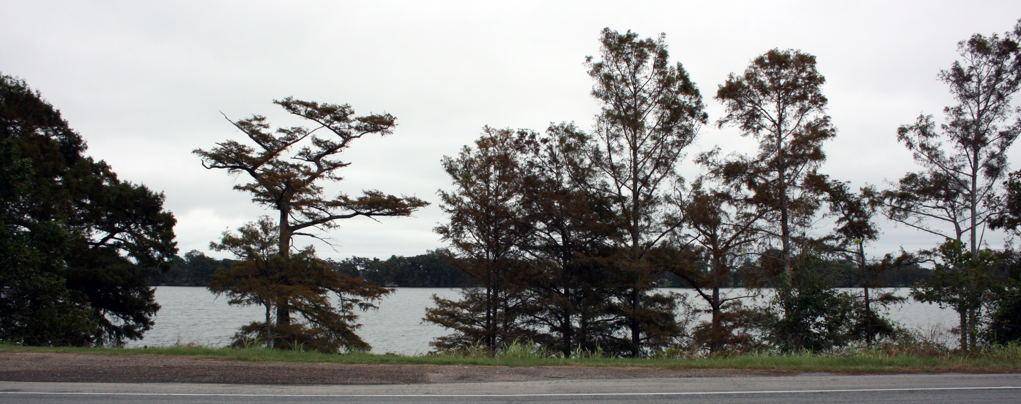 Lake Providence. Facing east from the east end of LA Highway 2, looking across US 65 (in the foreground), facing slightly south of due east.